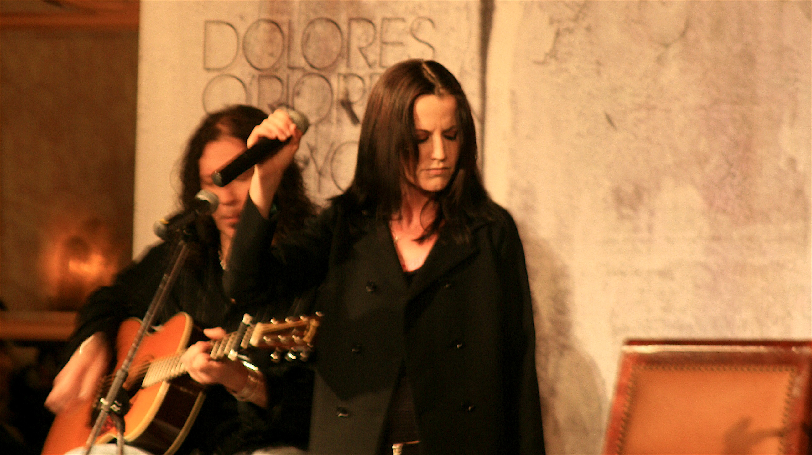 Dolores O'Riordan from The Cranberries